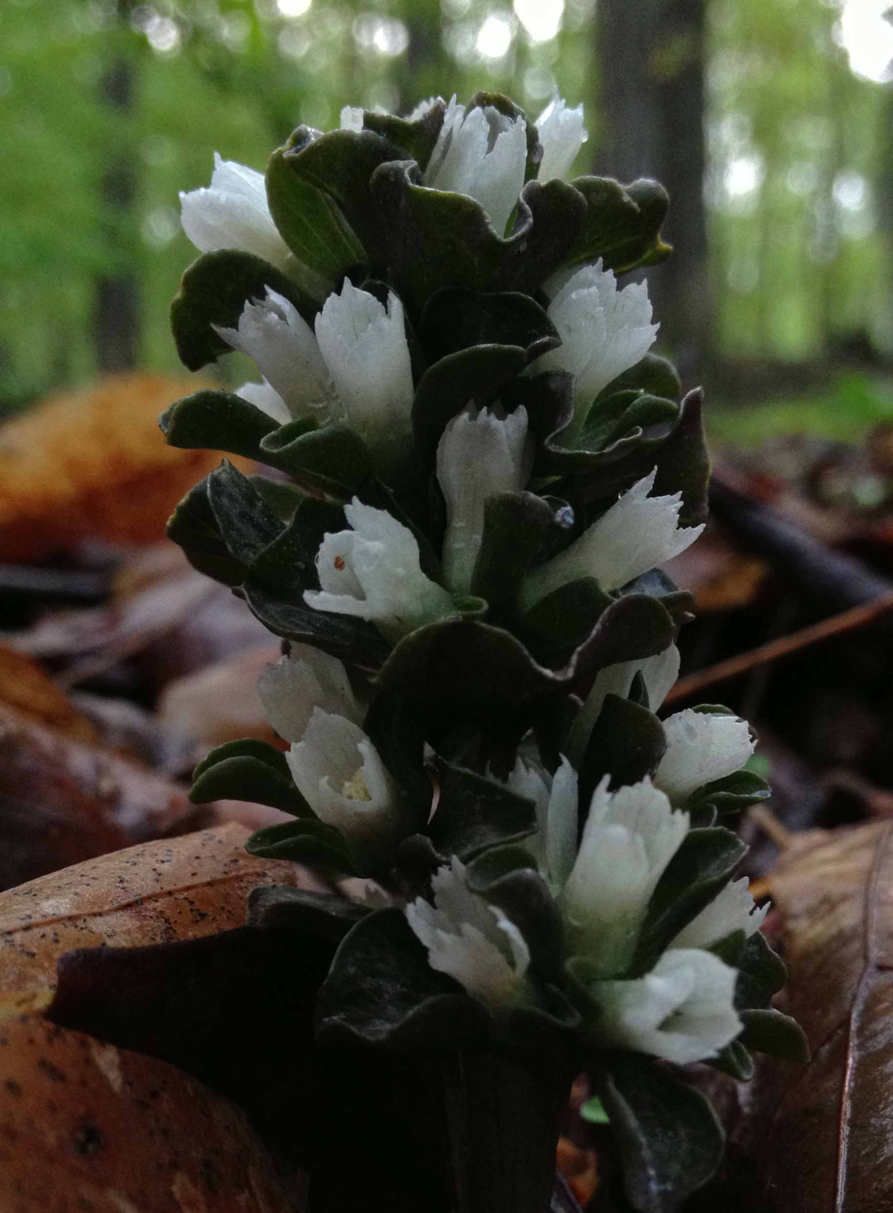 Photo of Obolaria virginica in flower. This is a native plant growing wild in Great Falls Park, in Fairfax county Virginia, USA. This species is a member of the Orobanchaceae family.